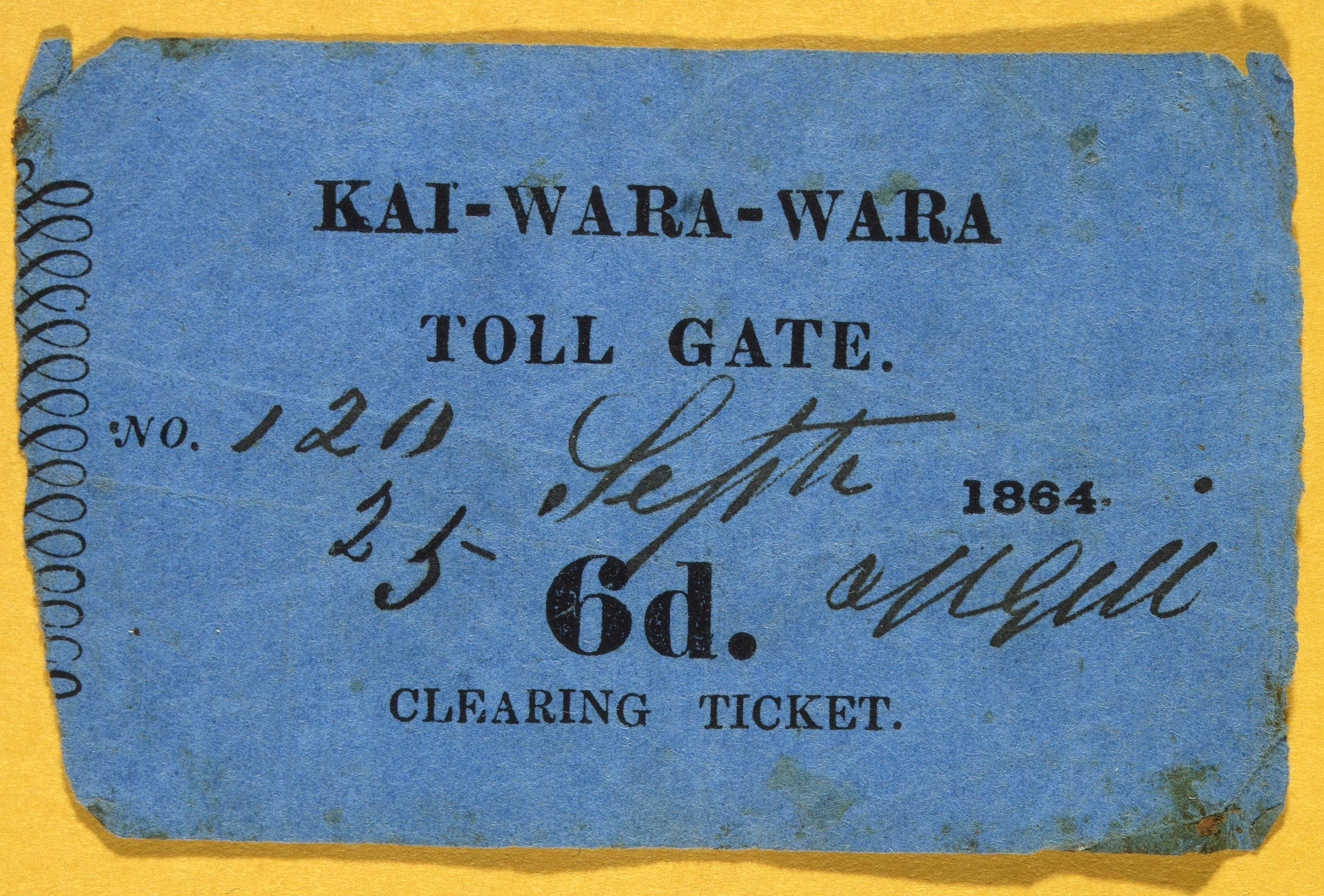 Arrangement of printed and handwritten text on blue ticket. A border of looped lines runs down the left hand side. The ticket is signed by William Gill, first gate keeper at the Kai Warra Toll Bar. The first toll gate was established at Kaiwharawhara in 1863, and remained there until 1890 (See Onslow historian, volume 10, number 2 (1980), pages 13-21). The ticket is for sixpence (6d). A horse, saddled or harnessed, would have cost sixpence to get through the toll gate. A mule or an ass would also have cost sixpence if saddled or harnessed. For a full set of the toll charges, see the Onslow historian article above, page 13. Quantity: 1 colour art print(s) on ticket.. Physical Description: Letterpress on card , 90 x 56 mm. Kai-Wara-Wara toll gate. Clearing ticket. 6d. 25 Sept[ember] 1864.. Ref: Eph-A-ROAD-1864-01. Alexander Turnbull Library, Wellington, New Zealand.